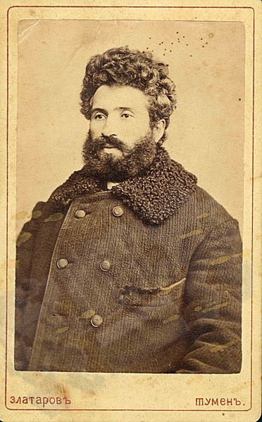 Nikola Zhivkov. Founded the the first kindergarten in Bulgaria. Assistant to Hristo Botev, secretary of Philip Totyuva. Author of the drama "Ilyo Voyvoda" (1877), the anthem "Shumi Maritza".